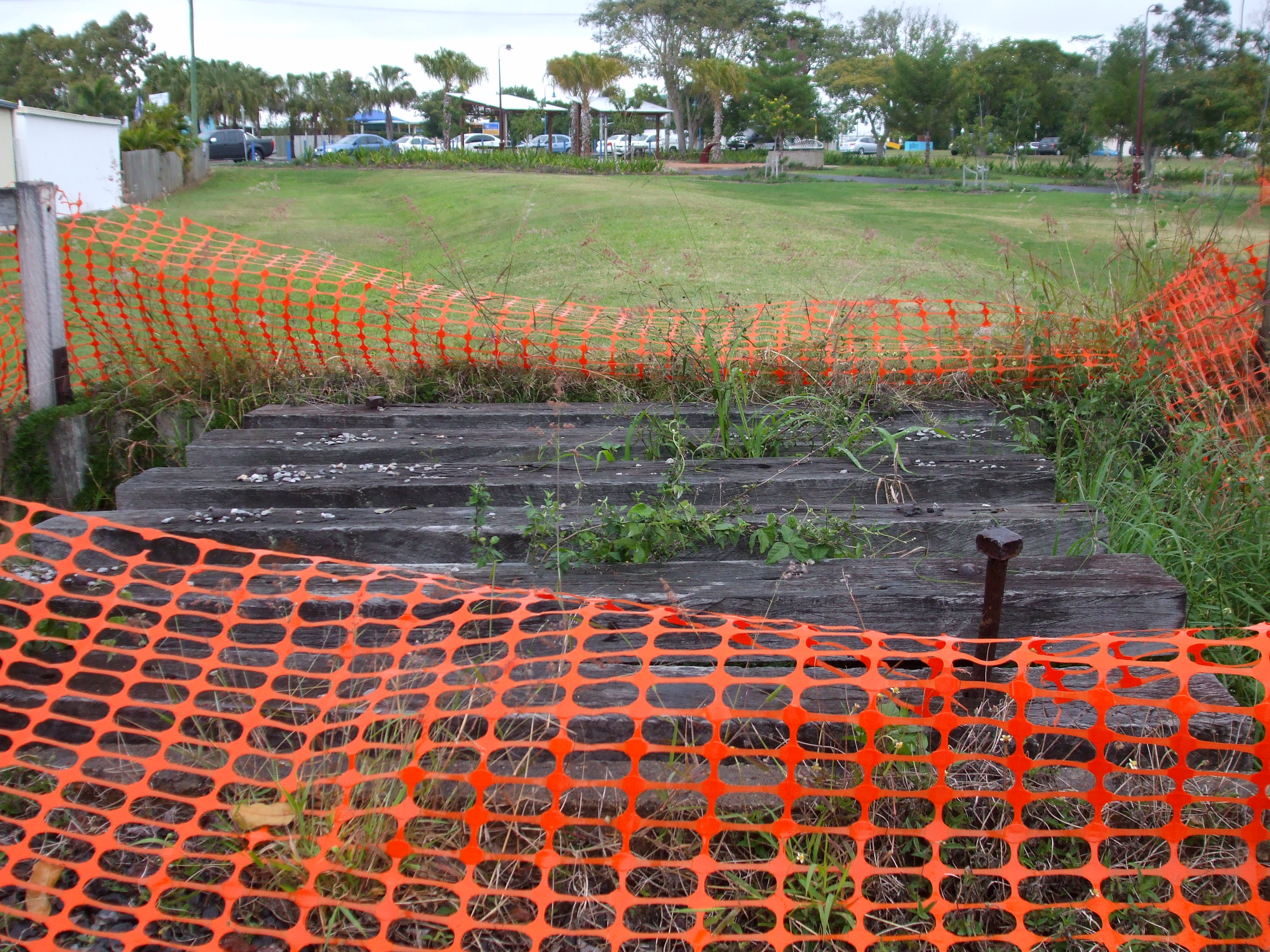 This is the only railway bridge left in Pialba. It's soon to be removed. I took this photo on the twenty-eighth of July, 2010, at roughly 4:00 in the afternoon.